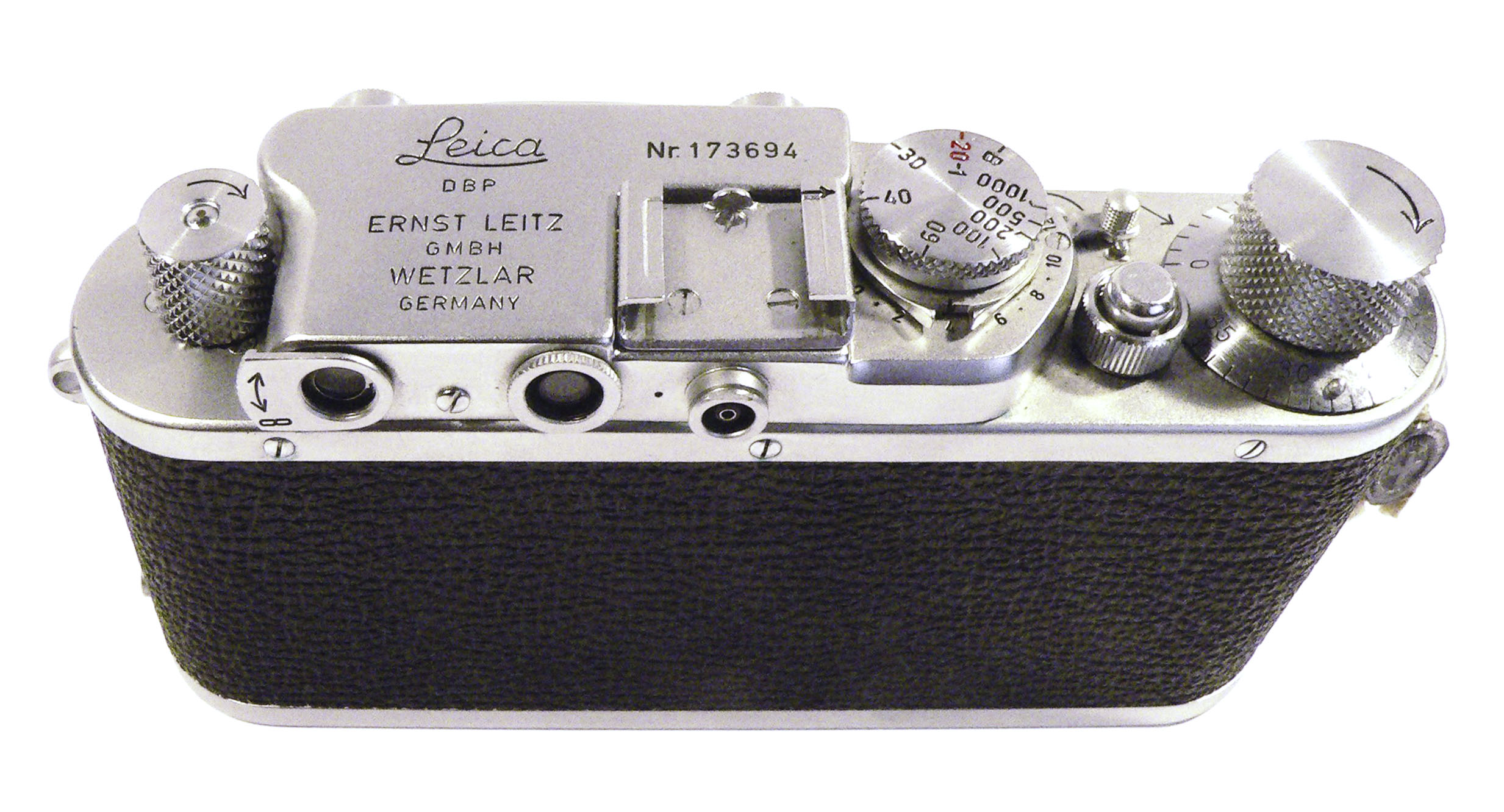 Leica III of 1935 [1]